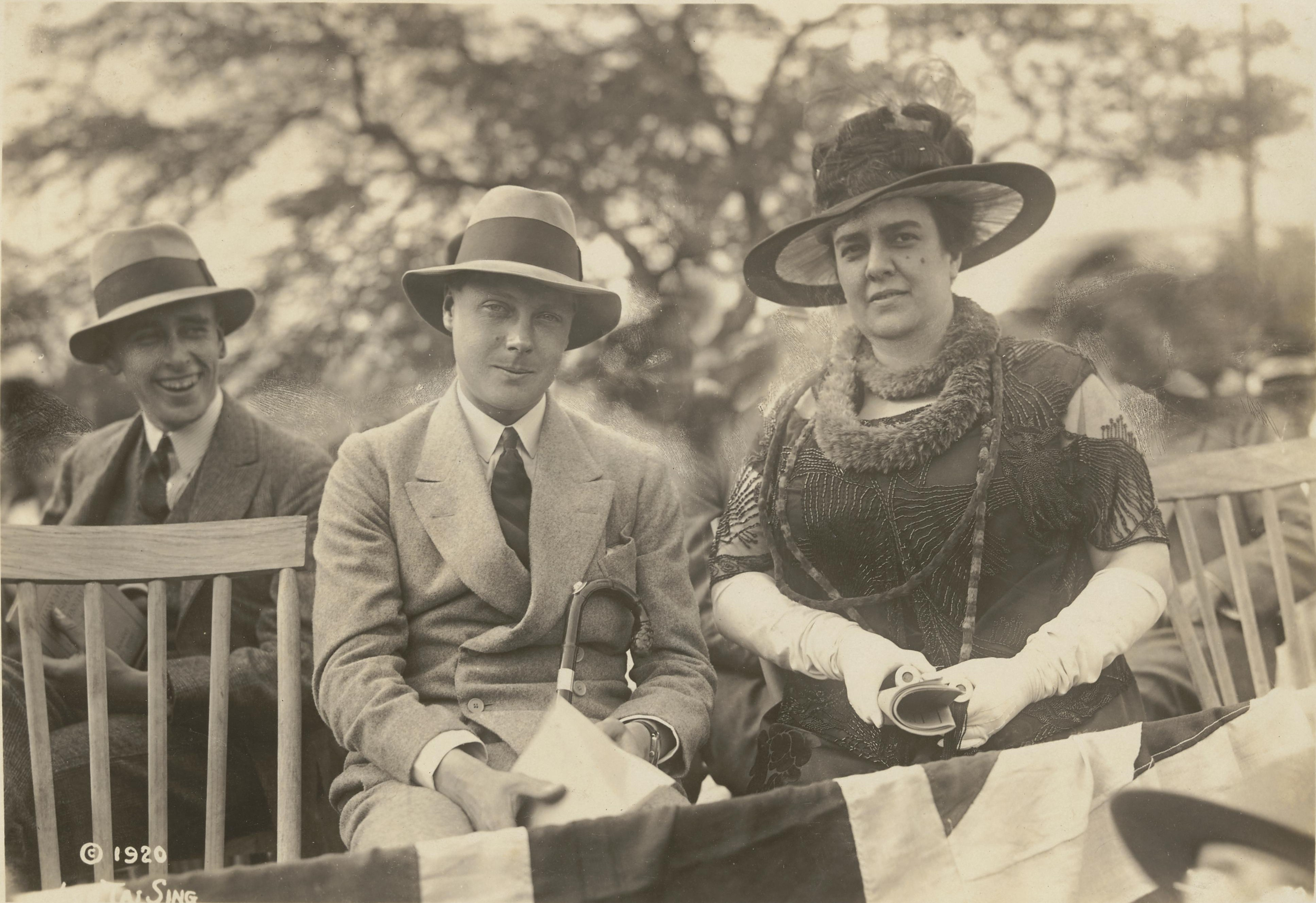 Princess Abigail Campbell Kawananakoa and the Prince of Wales on his visit to Hawaii in 1920.